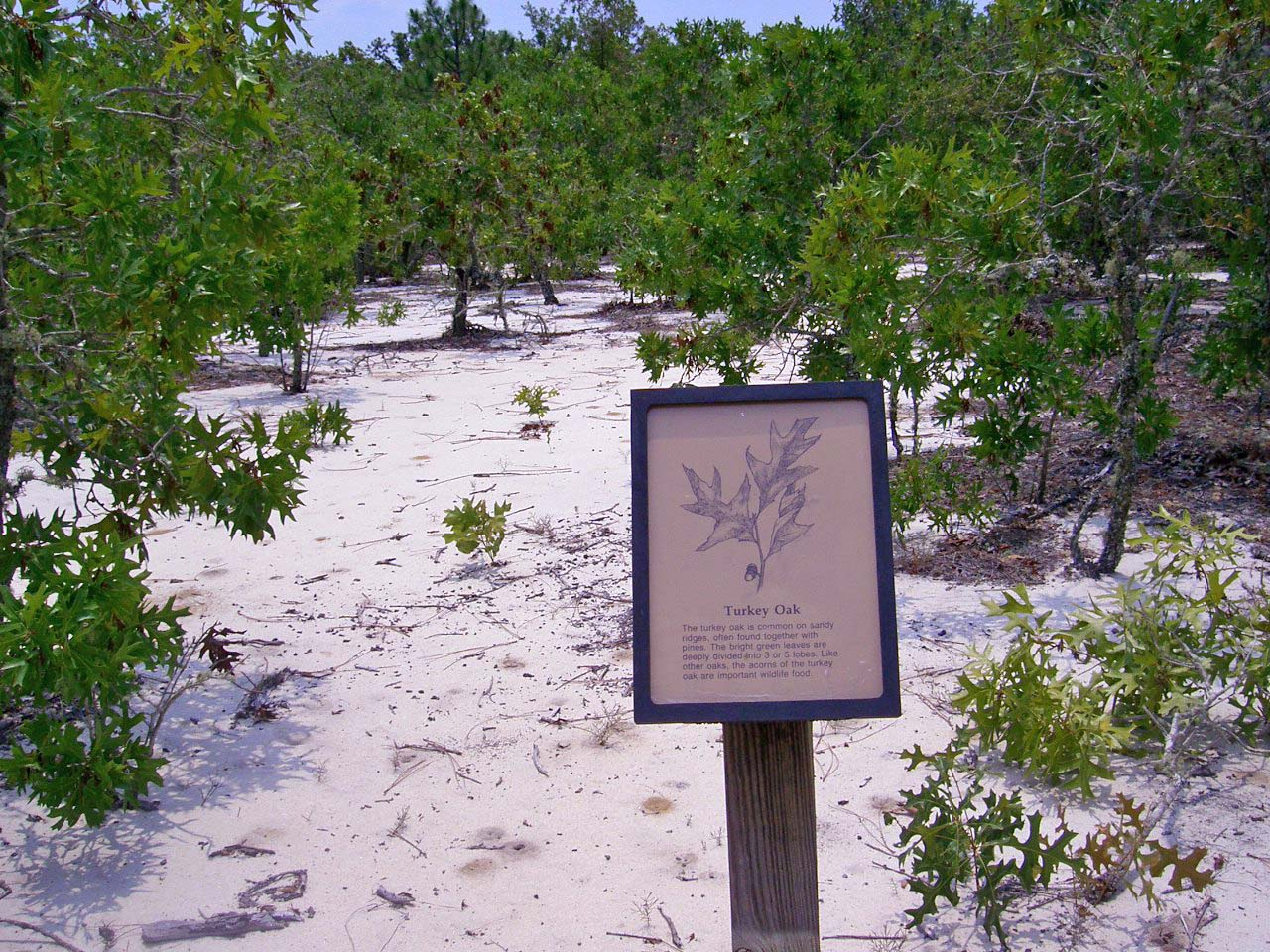 A stand of American turkey oaks Quercus laevis growing in sand in Little Ocmulgee State Park in the U.S. state of Georgia.